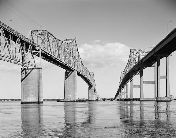 Silas N. Pearman & Grace Memorial Bridges (Charleston, South Carolina) cropped